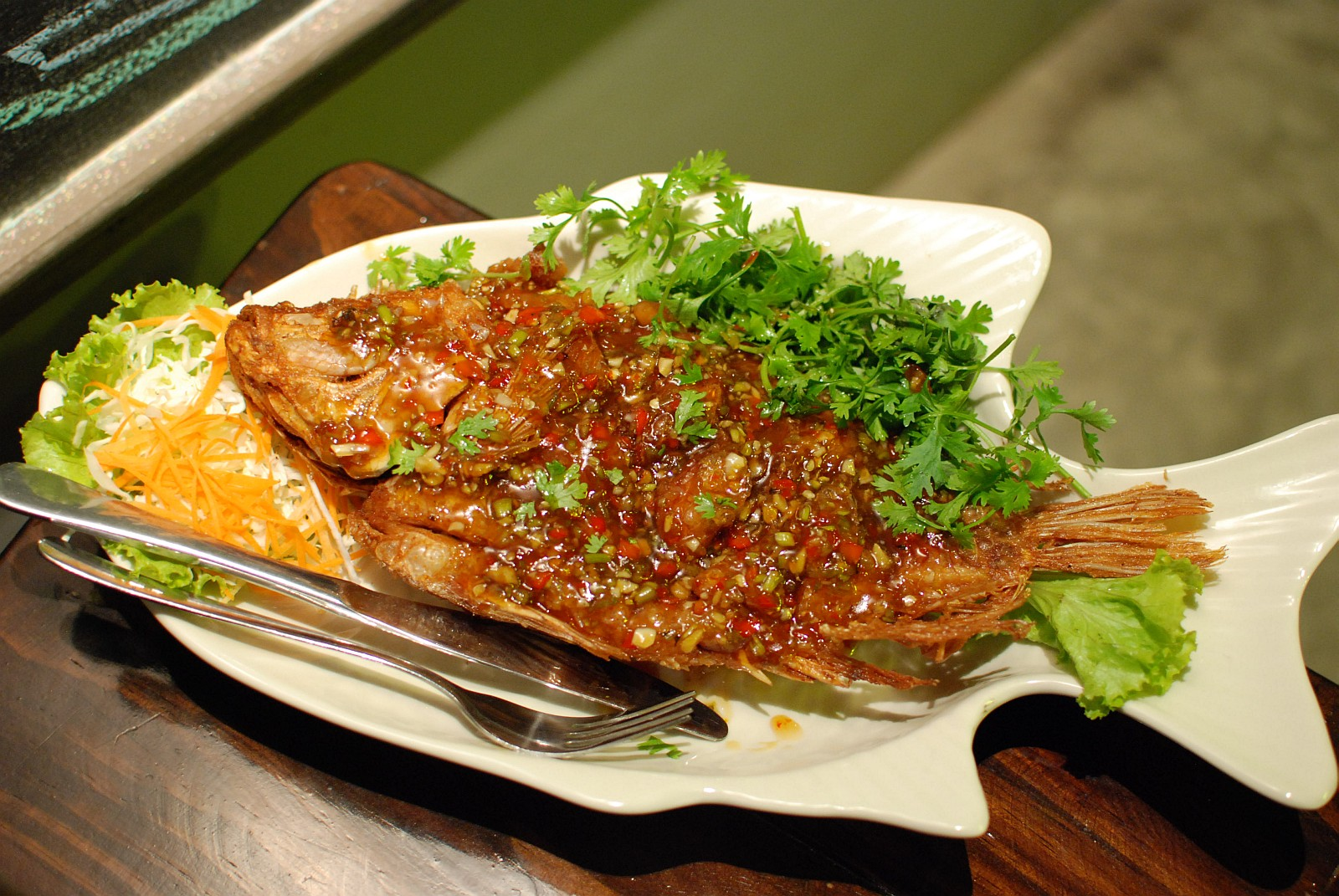 Pla samrot (Thai: ปลาสามรส) or pla thot samrot: Deep fried three flavours fish. Here made with pla thapthim (Thai: ปลาทับทิม, Oreochromis niloticus, Nile Tilapia). The sticky, sweet, spicy and tangy sauce's main ingredients are tamarind, chillies and garlic. The dish is garnished with roughly chopped coriander (cilantro) leaves. The fish is approximately 25 cm (10 inches) in length.